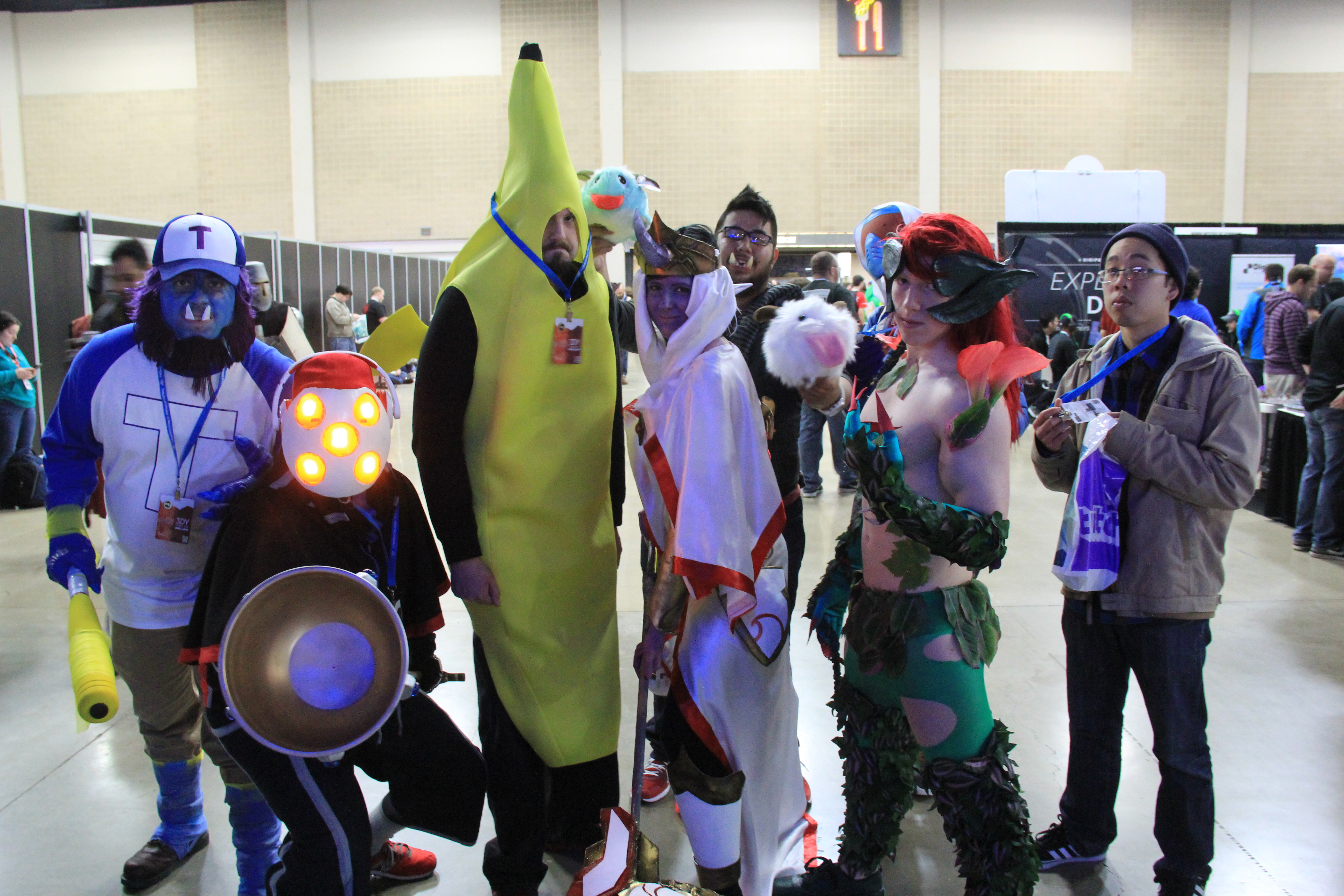 IMG_3504 Taken on day 1 of PAX South 2015.